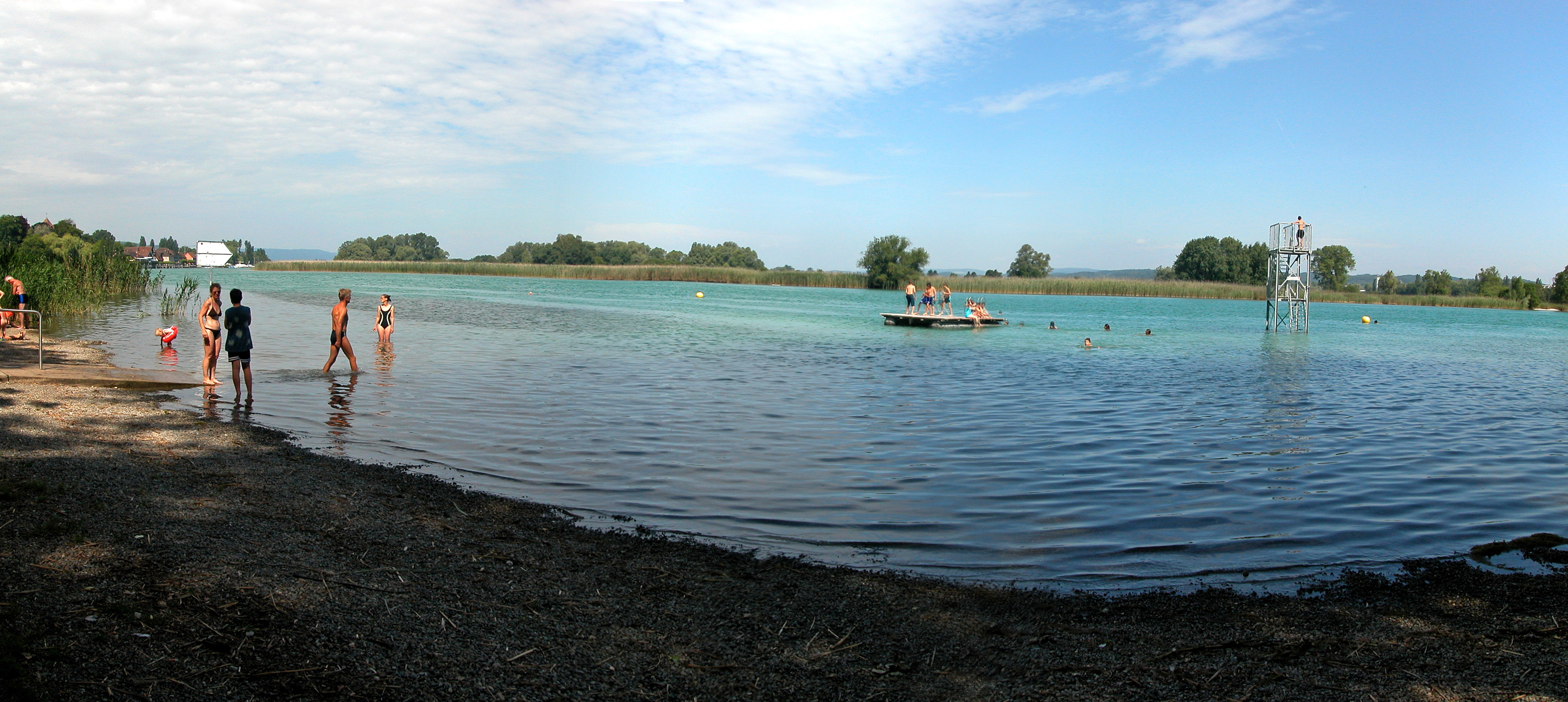 A lido on the Rhine between Lake Bodensee and Lake Untersee near Gottlieben, Germany.